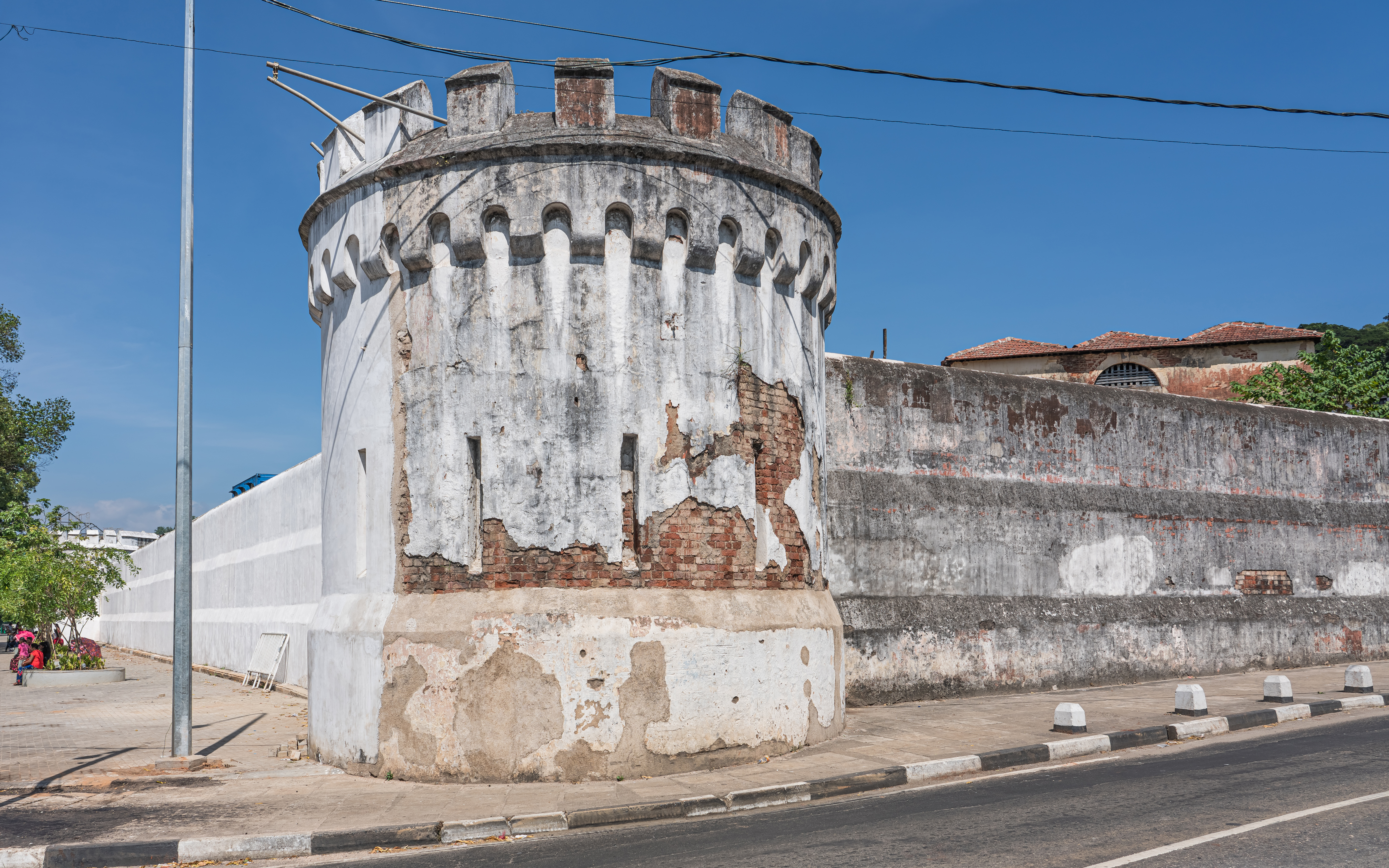 Former Bogambara Prison, now serving as a museum, in Kandy, Sri Lanka